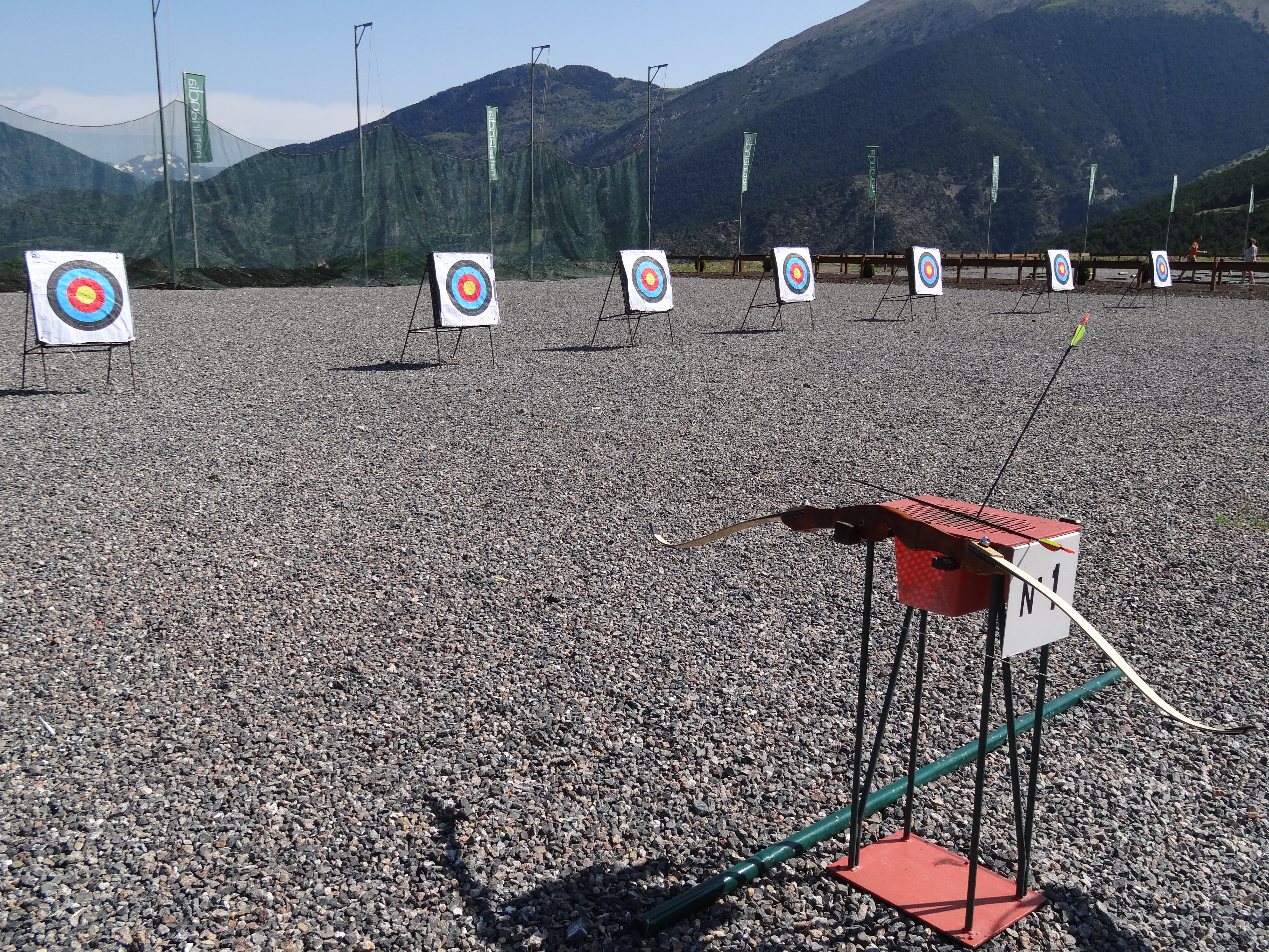 Naturlandia amusement park (Andorra)